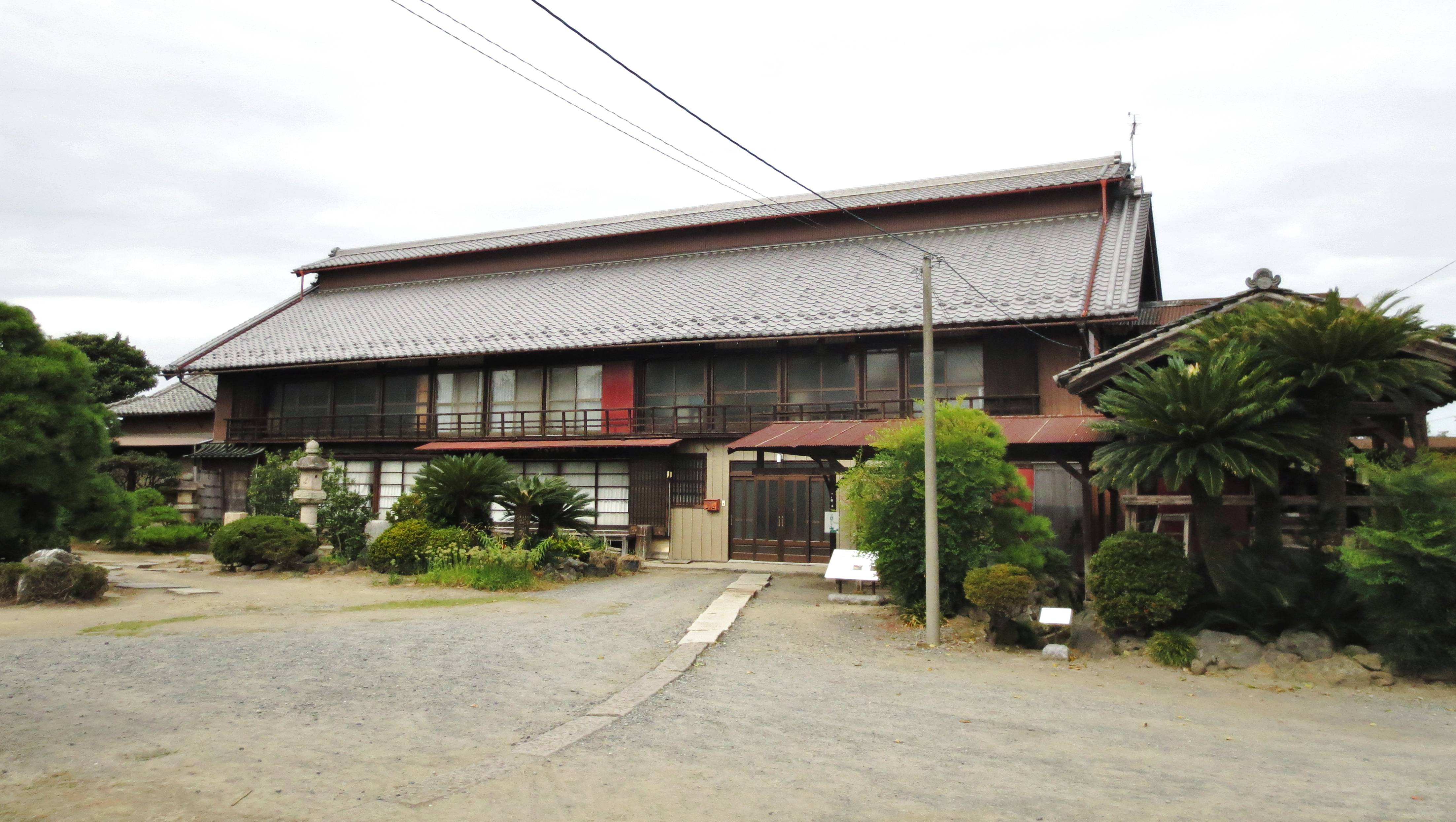 Tajima Yahei Sericulture Farm.